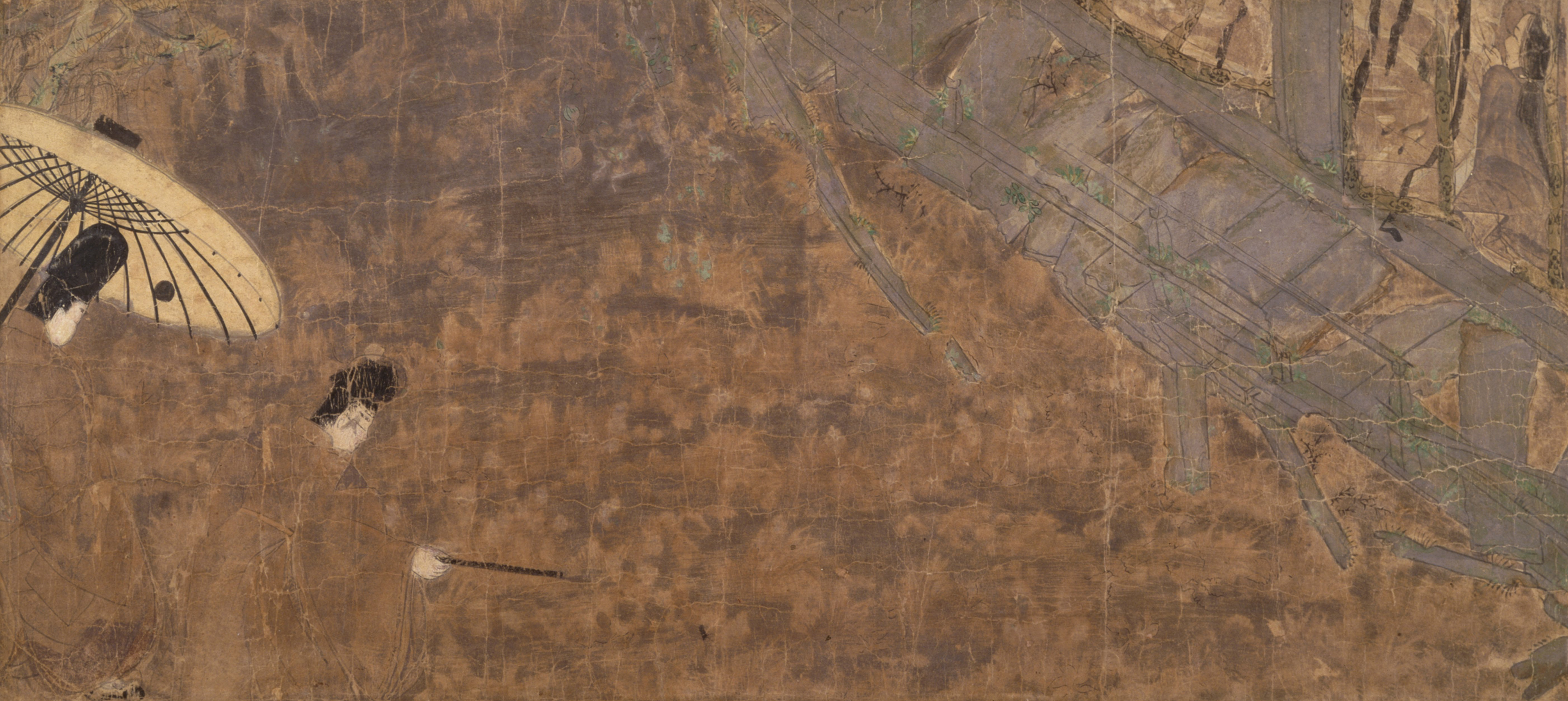 A scene of the Chapter "Yomogiu "(Waste of Weeds) of Illustrated handscroll of Tale of Genji (written by MURASAKI SHIKIBU(11th cent.). The handscroll was made in about ACE1130 and stored in TOKUGAWA Museum, Japan. The handscroll were separated to each sections and mounted to frame for conservation.